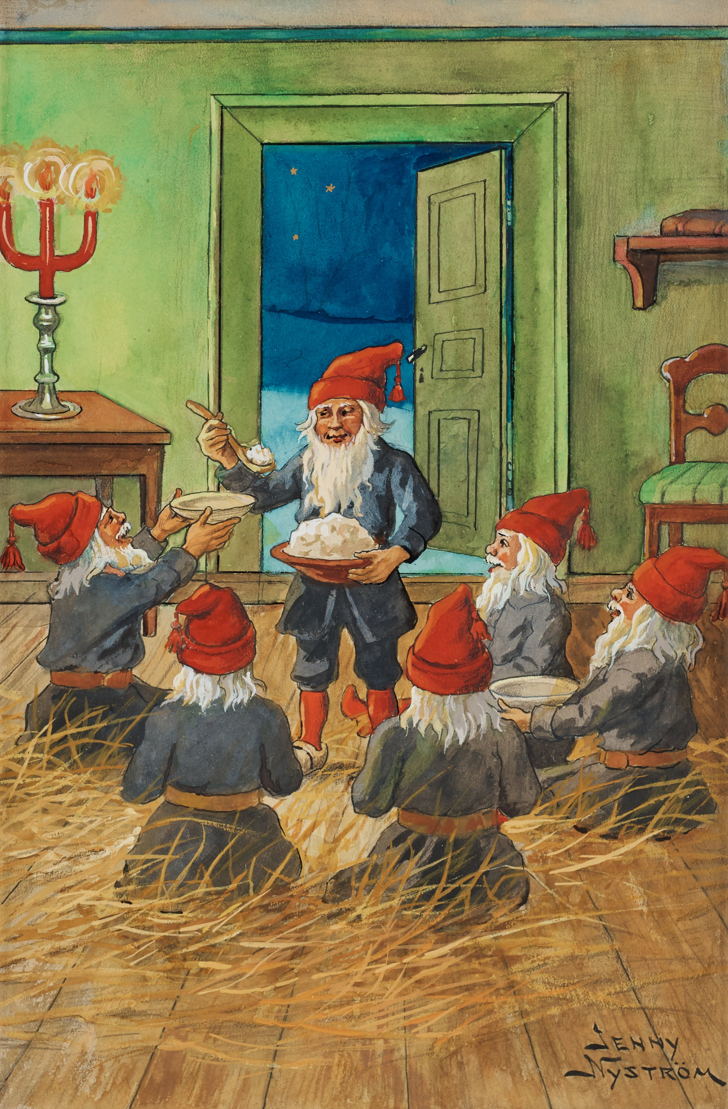 Christmas card by Jenny Nyström (1854-1946), Watercolor 26 x 17.5 cm